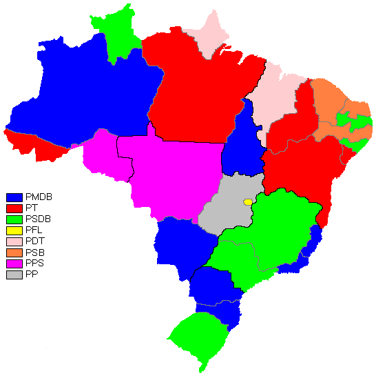 Mapa eleitoral do Brasil com os partidos dos governadores eleitos na eleição de 2006. (nesta versão não há os nomes dos governadores eleitos) Elections map of Brazil with parties of elected governors in the 2006 election. (this version has not the names of the elected governors)